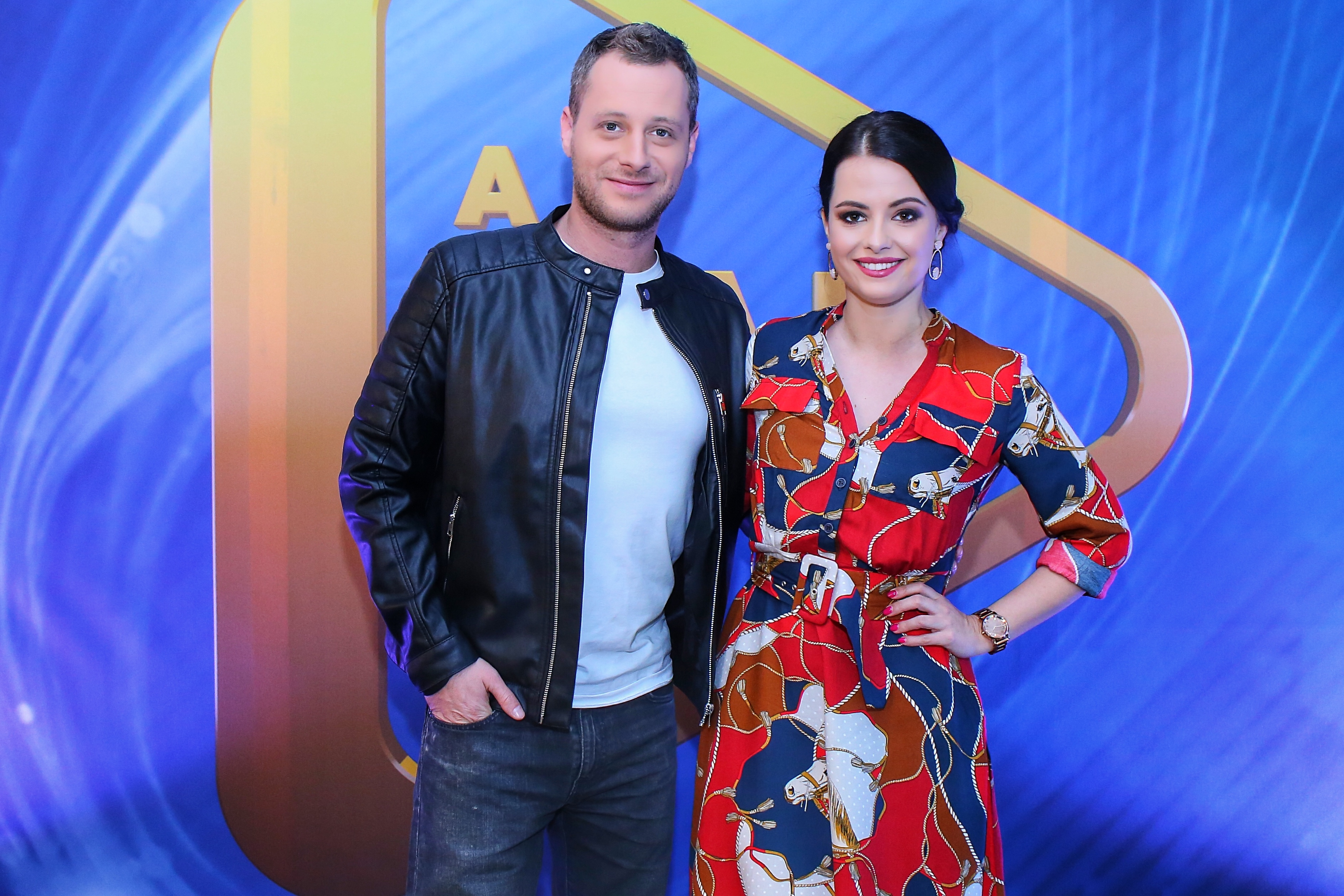 The hosts of A Dal Kulissza: Lola & Bence Forró